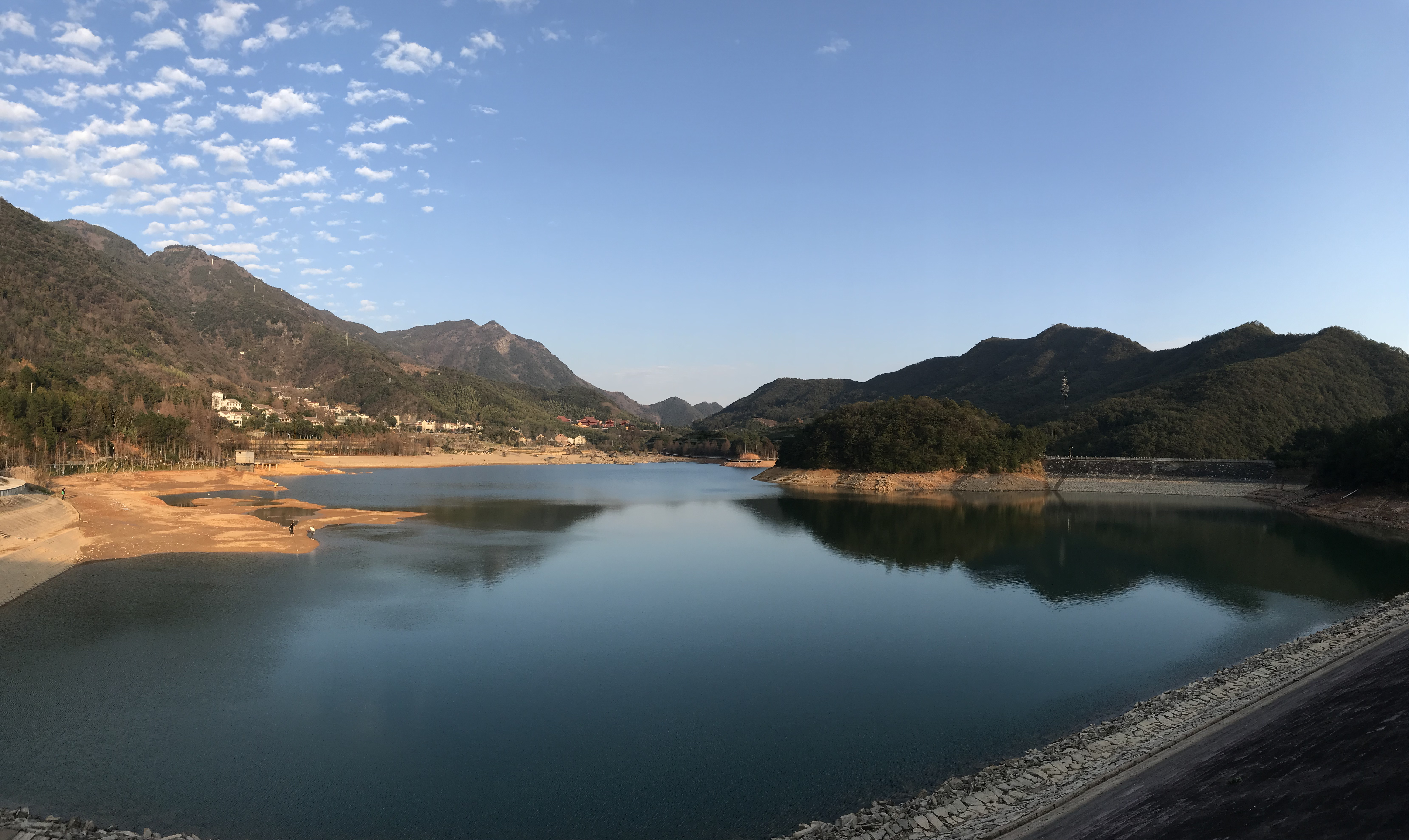 Clear weather in the countryside